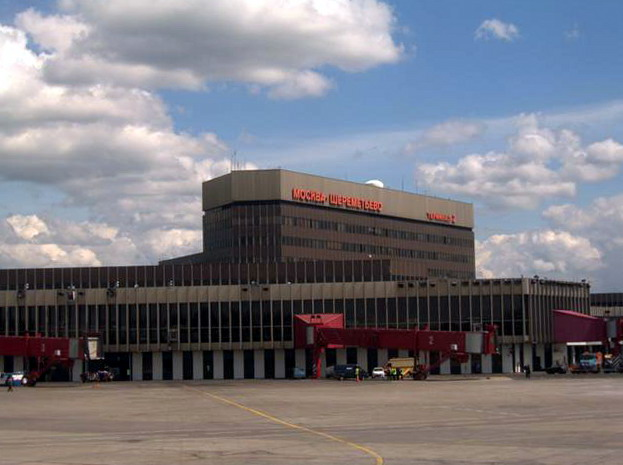 Terminal F (formerly known as Terminal 2) of Sheremetyevo International Airport in Moscow Oblast. Image shot from the window of the plane (Delta from JFK/New York) on 28Jun2005 by Brian Manning, using a Canon Powershot S50 camera. First uploaded at Image:Svo terminal 2.jpg by User:Spicyjack